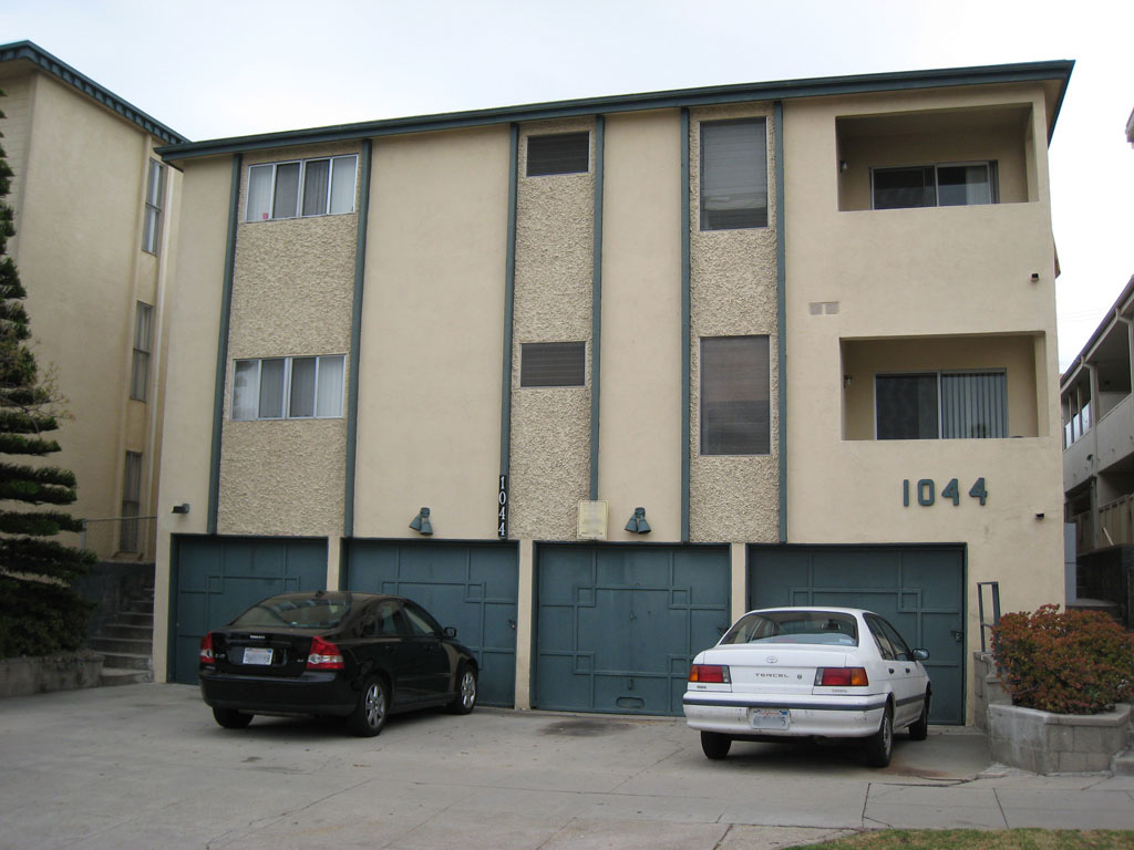 Example of "dingbat" apartment facade.